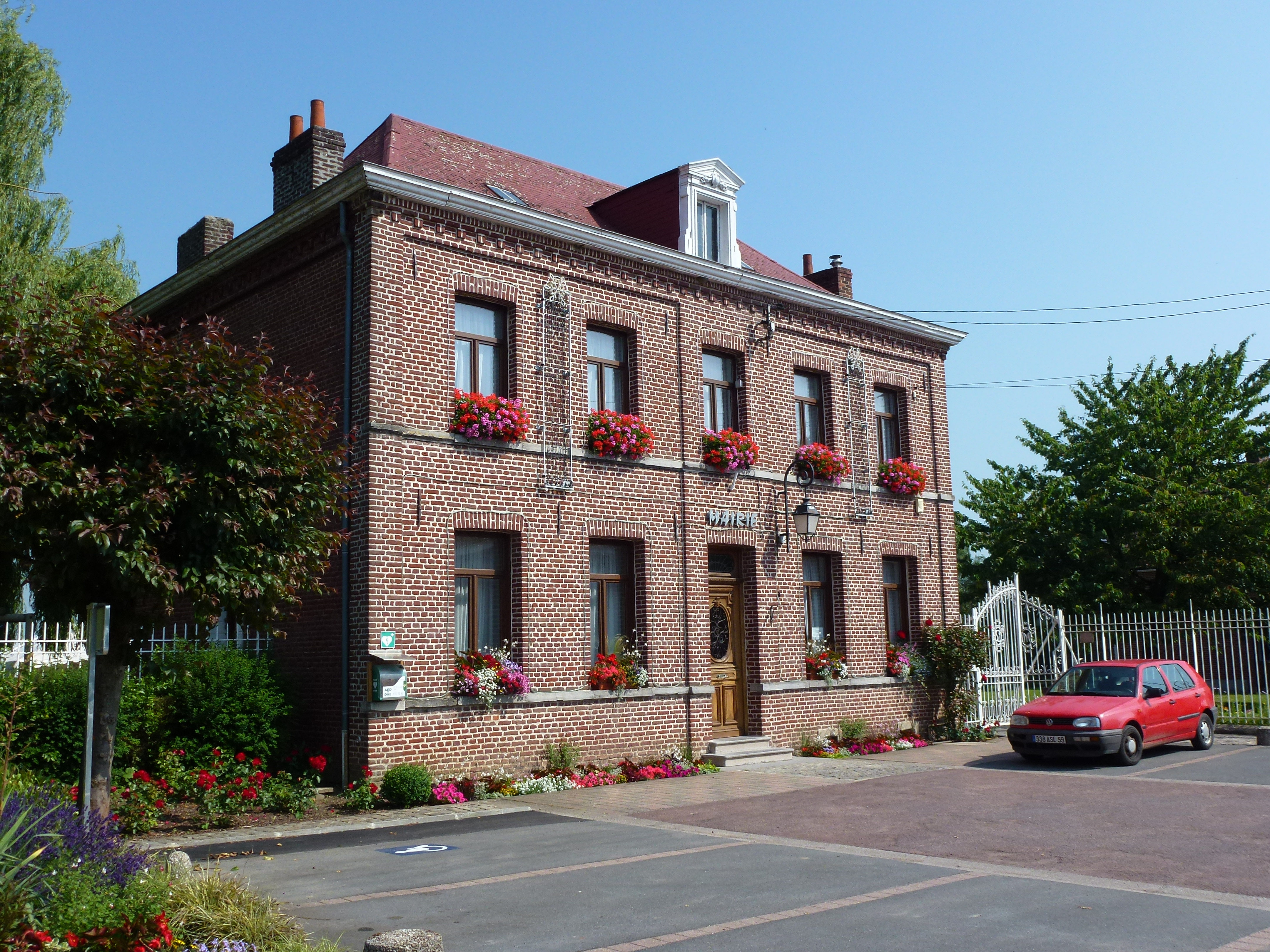 Brillon (Nord, Fr) mairie